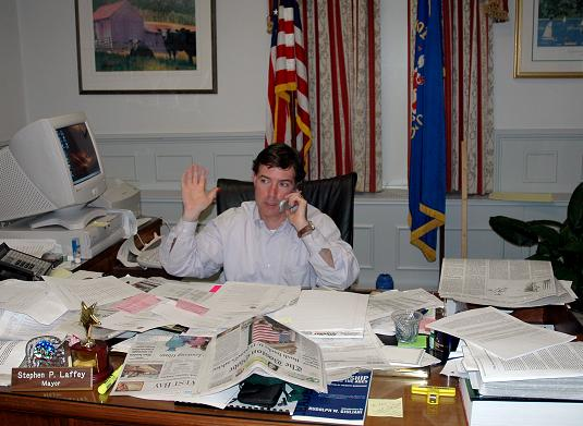 Image of Steve Laffey in the Mayor's office.